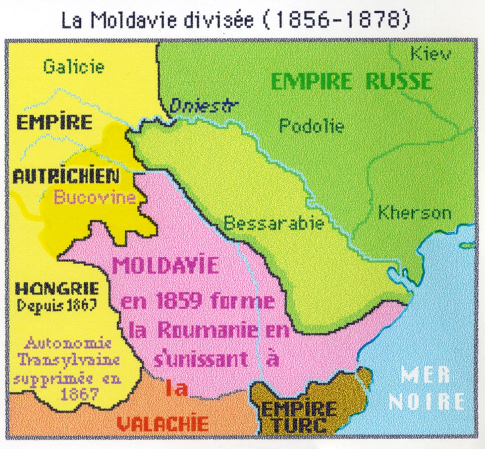 Map of Moldova/Moldavia 1856-1878